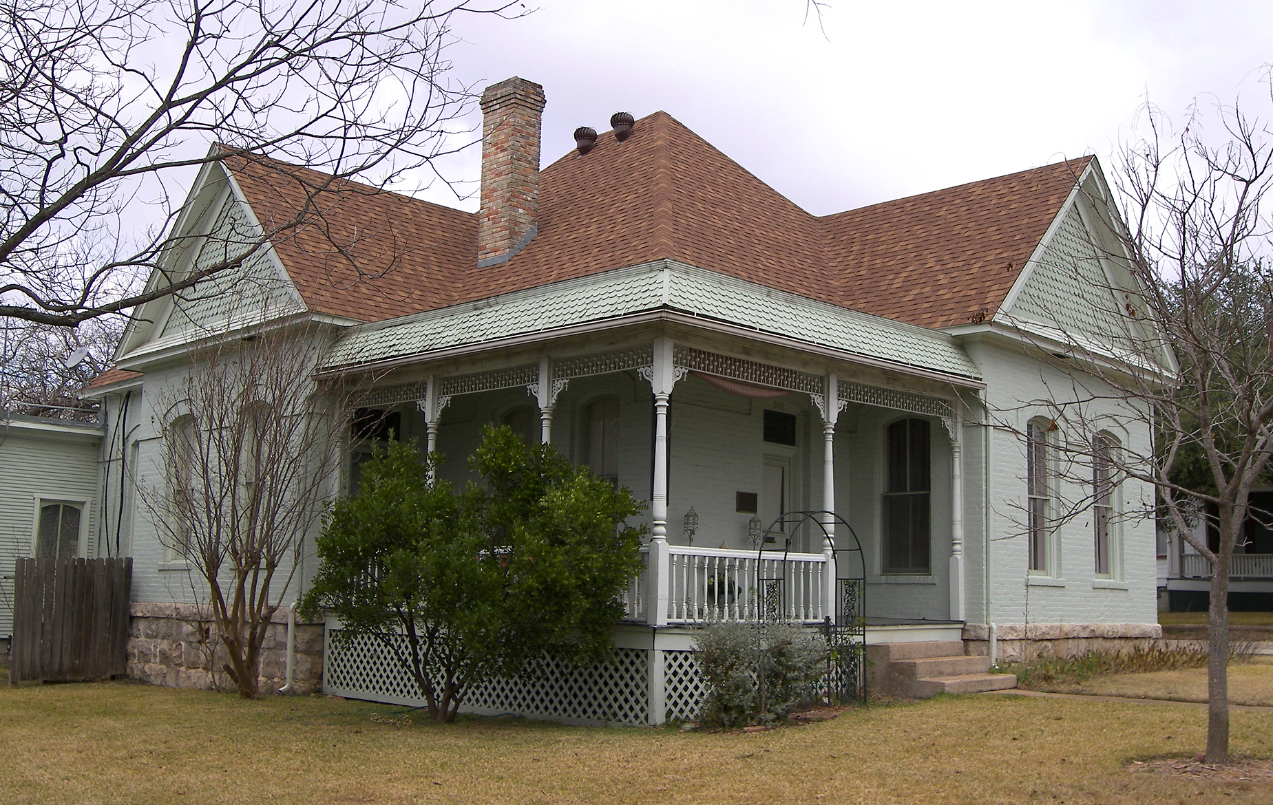 The First Christian Church Parsonage located in Belton, Texas, United States. The building was listed the National Register of Historic Places on December 26, 1990.